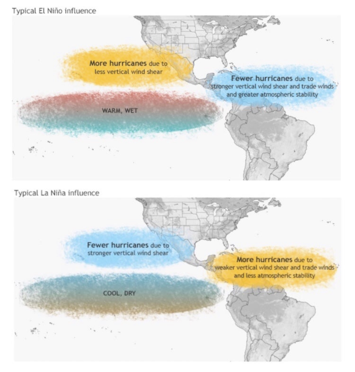 In the Atlantic ocean, a El Niño typically brings strong wind shear, cooler ocean temperatures, strong trade winds, and greater atmospheric stability, these environmental conditions are unfavorable for tropical cyclones to occur. However in the Pacific Ocean, tropical cyclone activity increases, due to low wind shear, warmer ocean temperatures, and less atmospheric stability, these environmental conditions are favorable for tropical cyclones to occur. In the Atlantic Ocean, a La Niña typically brings low wind shear, warmer ocean temperatures, weak trade winds, and less atmospheric stability, these environmental conditions are favorable for tropical cyclones to occur. However in the Pacific Ocean, tropical cyclone activity decreases due to strong wind shear, cooler ocean temperatures, and greater atmospheric stability, these environmental conditions are unfavorable for tropical cyclones to occur.